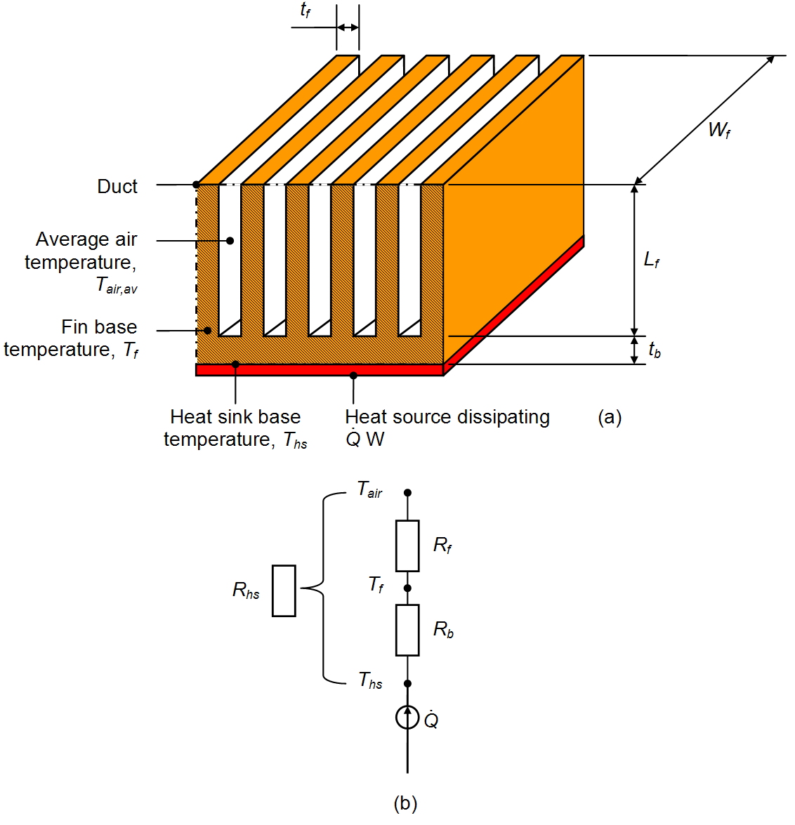 Heat sink with thermal resistances used to calculated thermal performance.